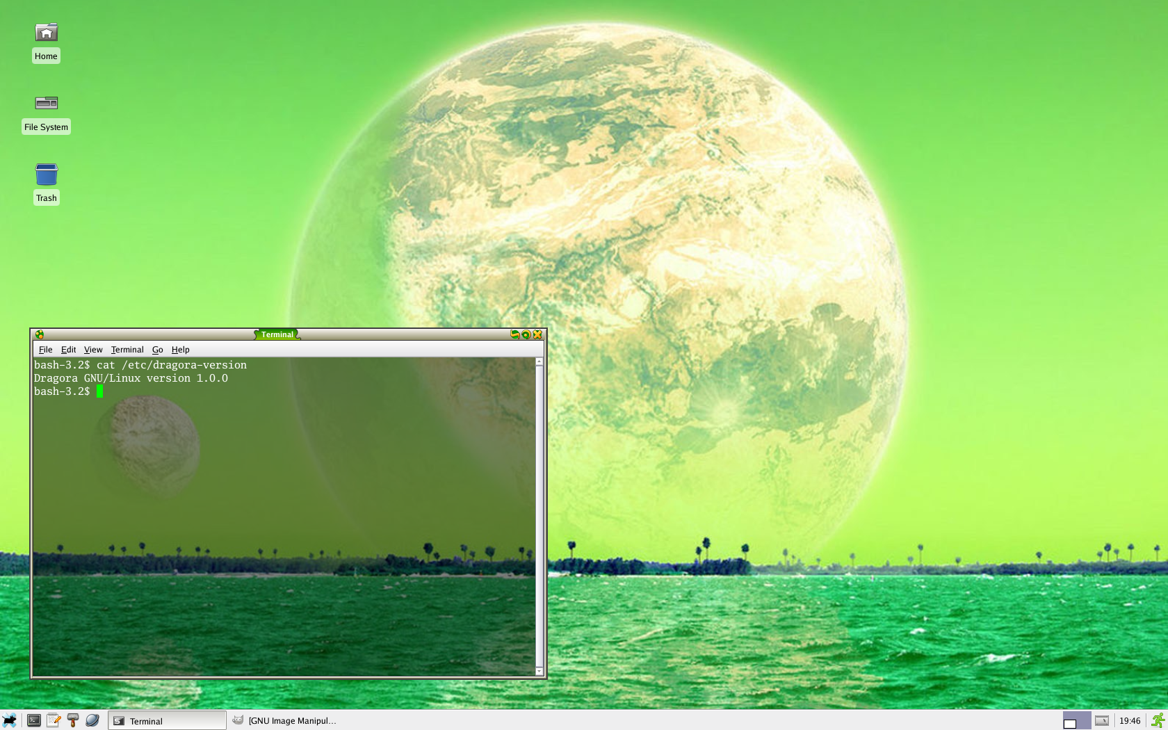 The Dragora GNU/Linux desktop with XFCE 4